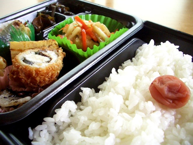 A makunouchi, a type of Japanese bentō (lunch box). On the right is Hinomaru style rice. It symbolizes the flag of Japan. It consists of gohan (steamed white rice) with a red umeboshi (dried ume) in the center which represents the sun.